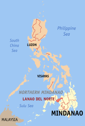 Map of the Philippines showing the location of Lanao del Norte